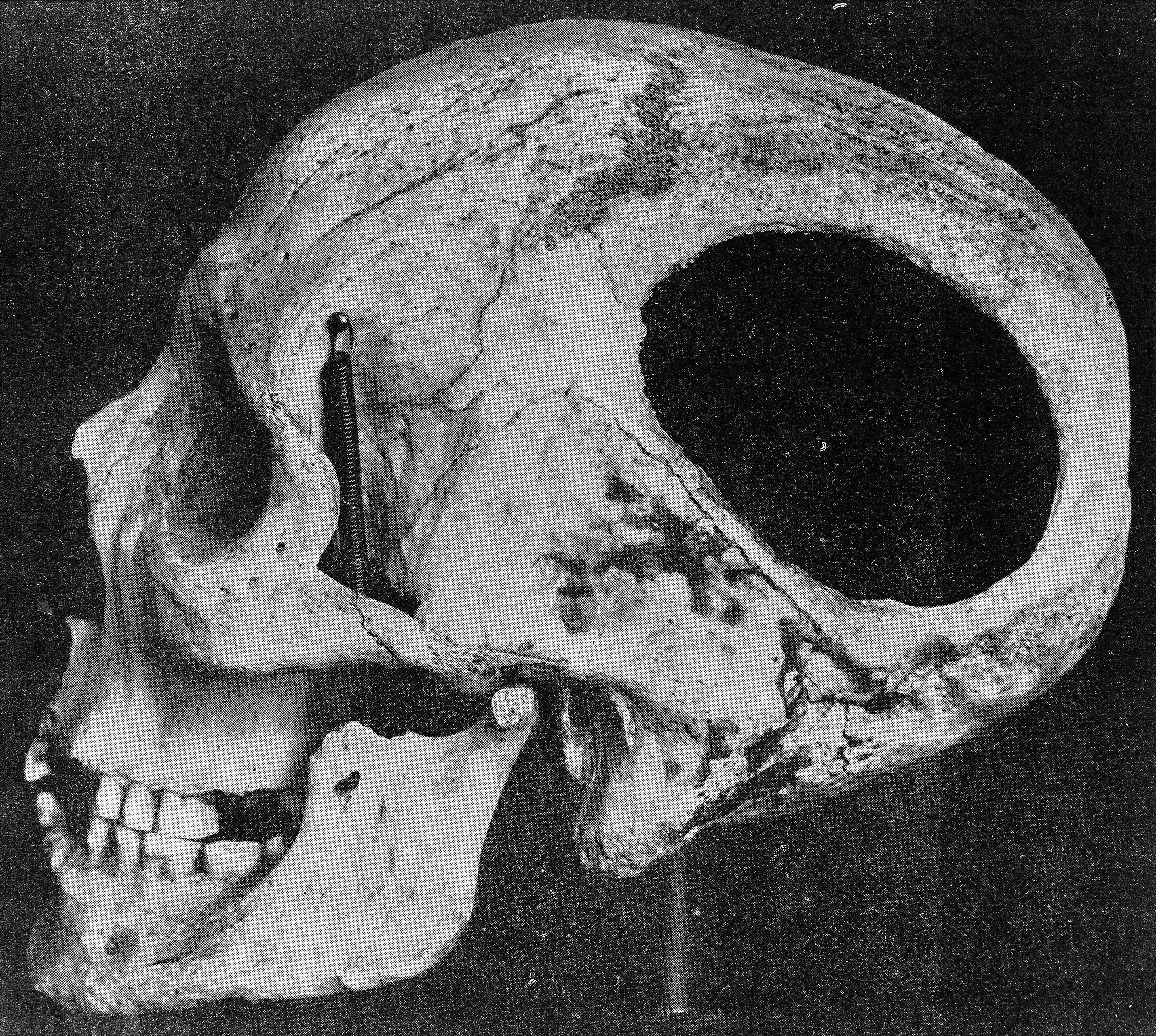 Trephination from the cave of Nogert-les-vierges, Neolithic period General Collections Keywords: Trephination; Just Marie Marcellin Lucas-Championniere; prehistoric surgery